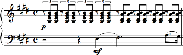 Melodie in E major, part of the Morceaux de Fantaisie, composed by Sergei Rachmaninoff